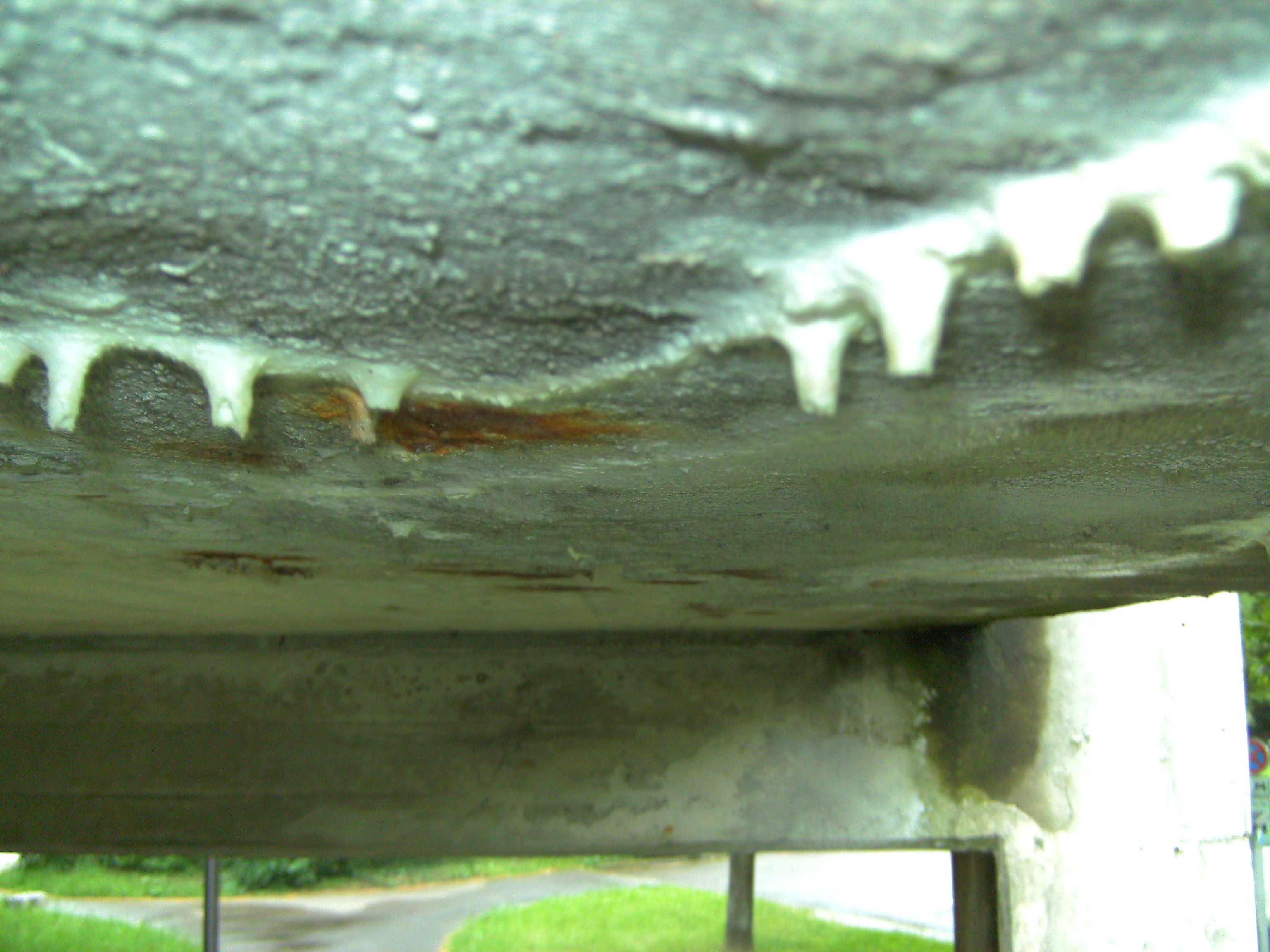 Stalaktites on concrete under a walkway in Ludwigsburg, Baden-Württemberg, Germany